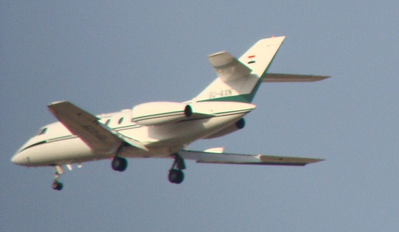 egyptian dassault falcon